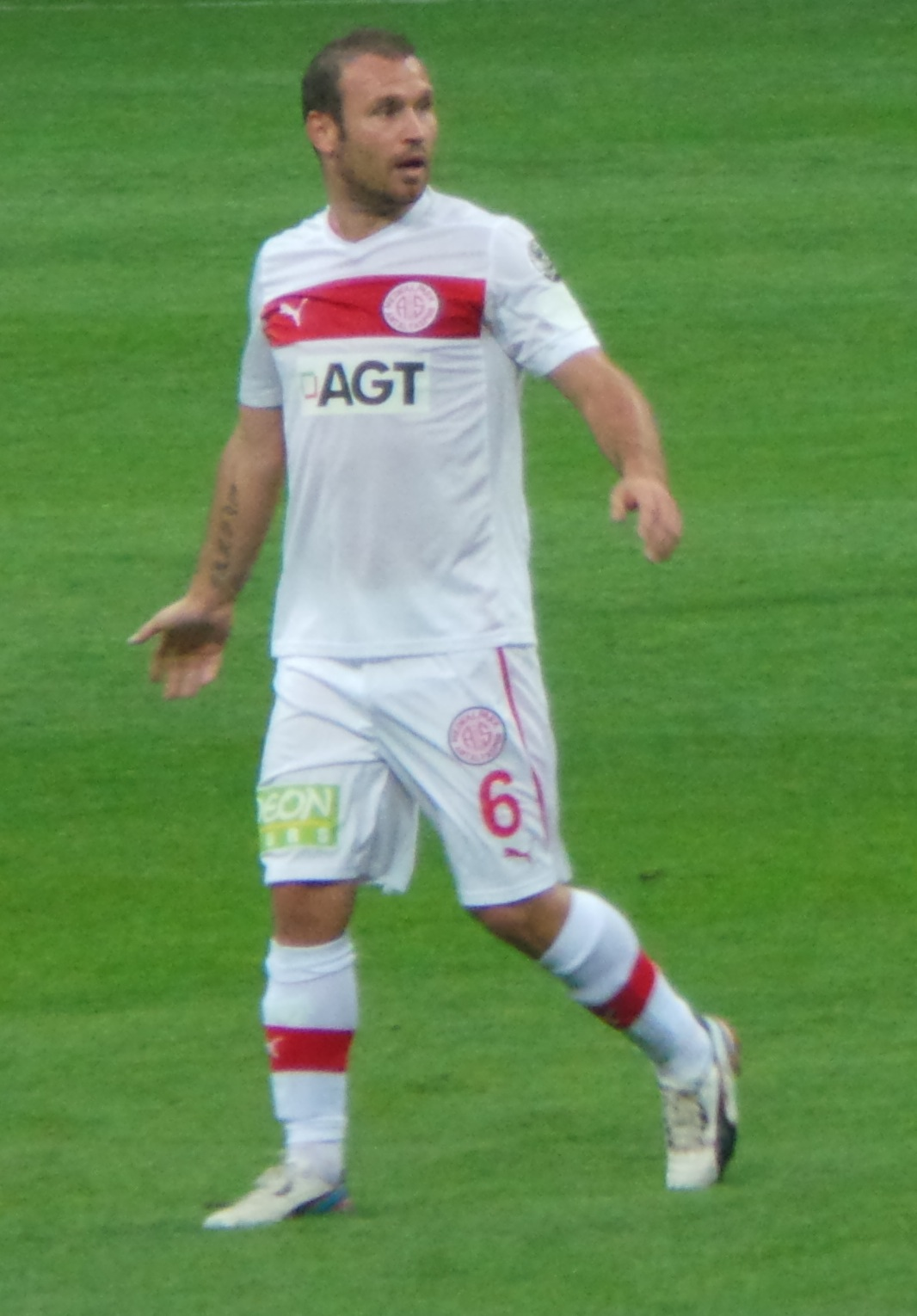 Serkan Balcı with Antalyaspor